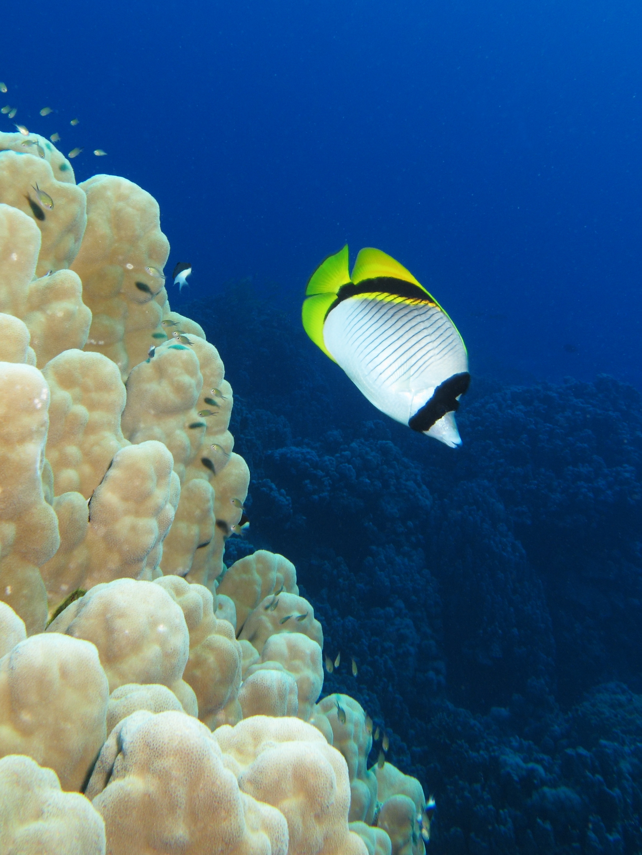 Lined butterflyfish (Chaetodon lineolatus) swims along a dome coral (Porites nodifera) at Shaab Claudia (Red Sea, Egypt)